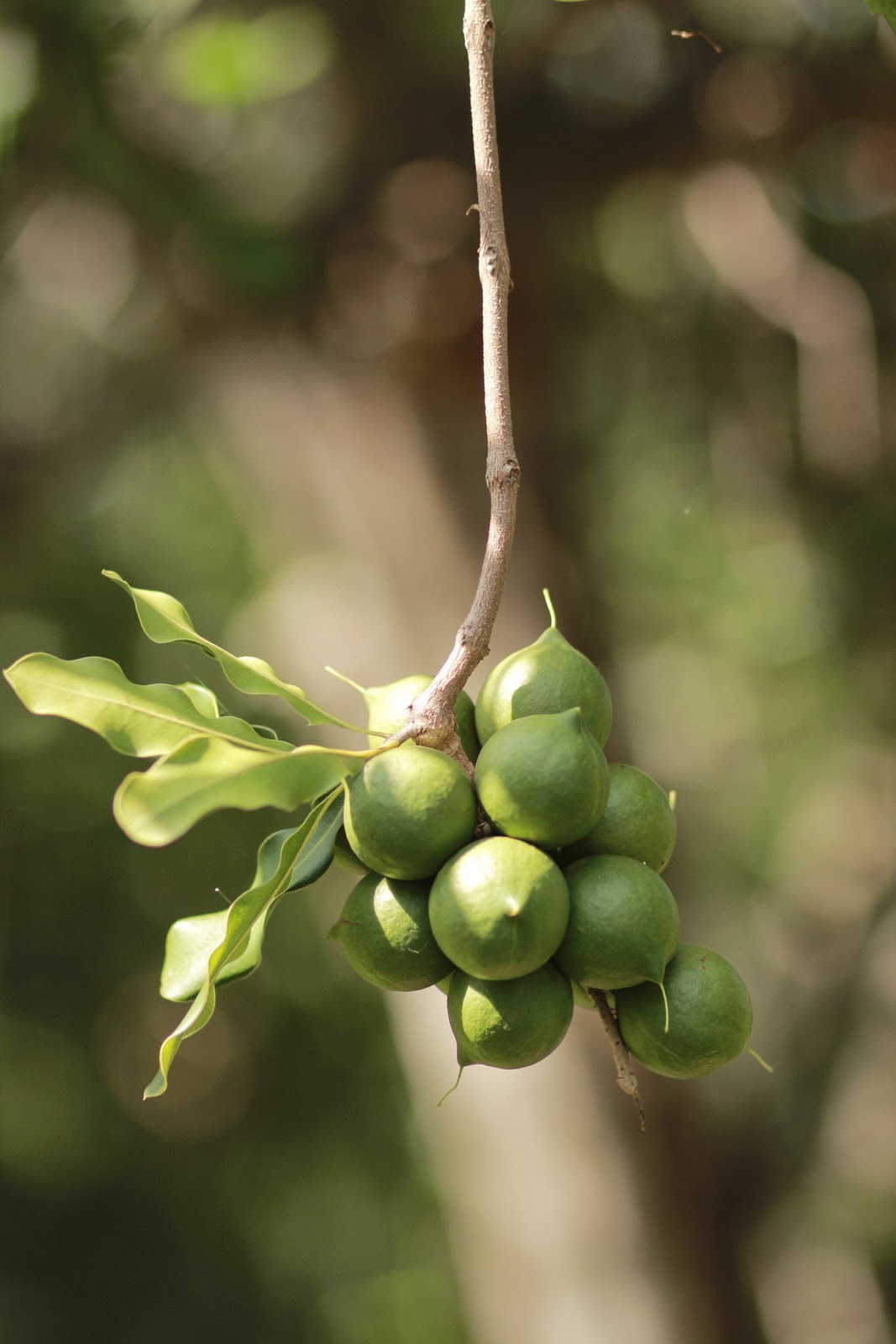 Macadamia nuts on a tree on a plantation in Hawaii.